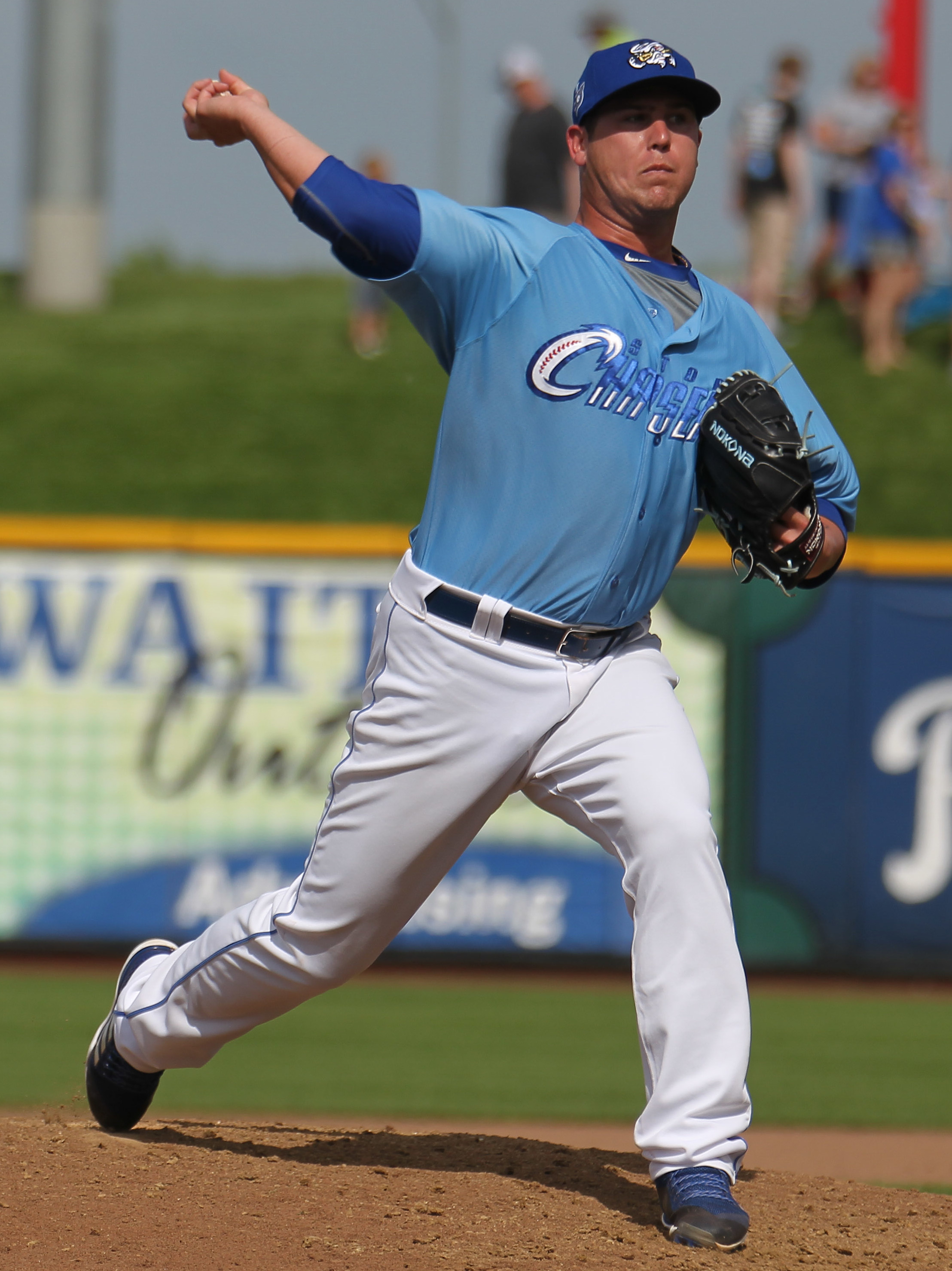 Jake Newberry of the Omaha Storm Chasers delivers a pitch in June 2018 at Werner Park in Omaha.